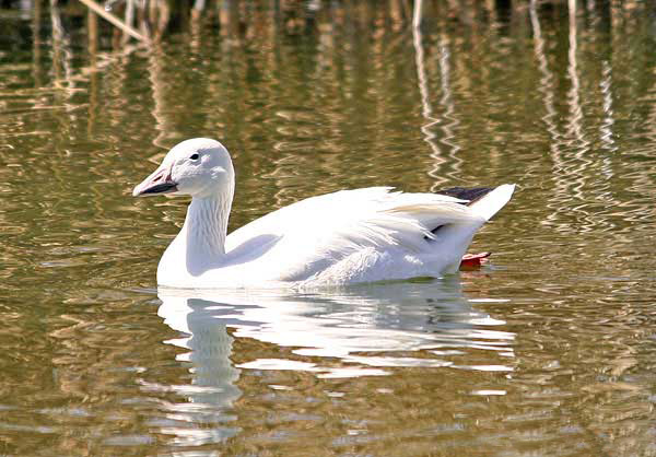 Snow Goose (captive), Wildlife West Nature Park, Edgewood, New Mexico, USA.